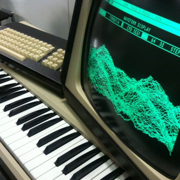 Fairlight CMI series II, early digital sampler / music workstation, photographed at NAMM Show 2011 in Anaheim, California.